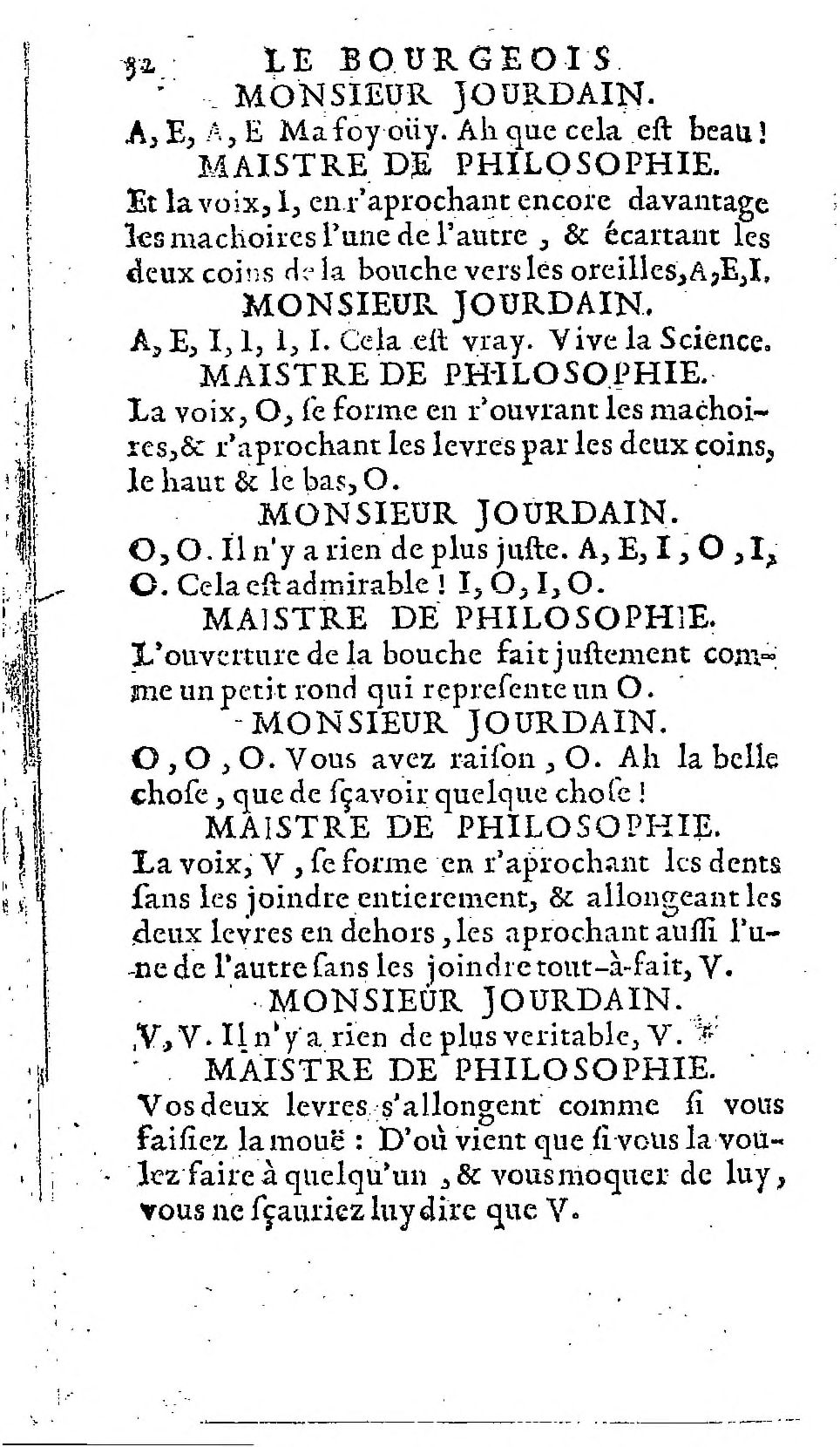 Page from the play (act II, scene 4).